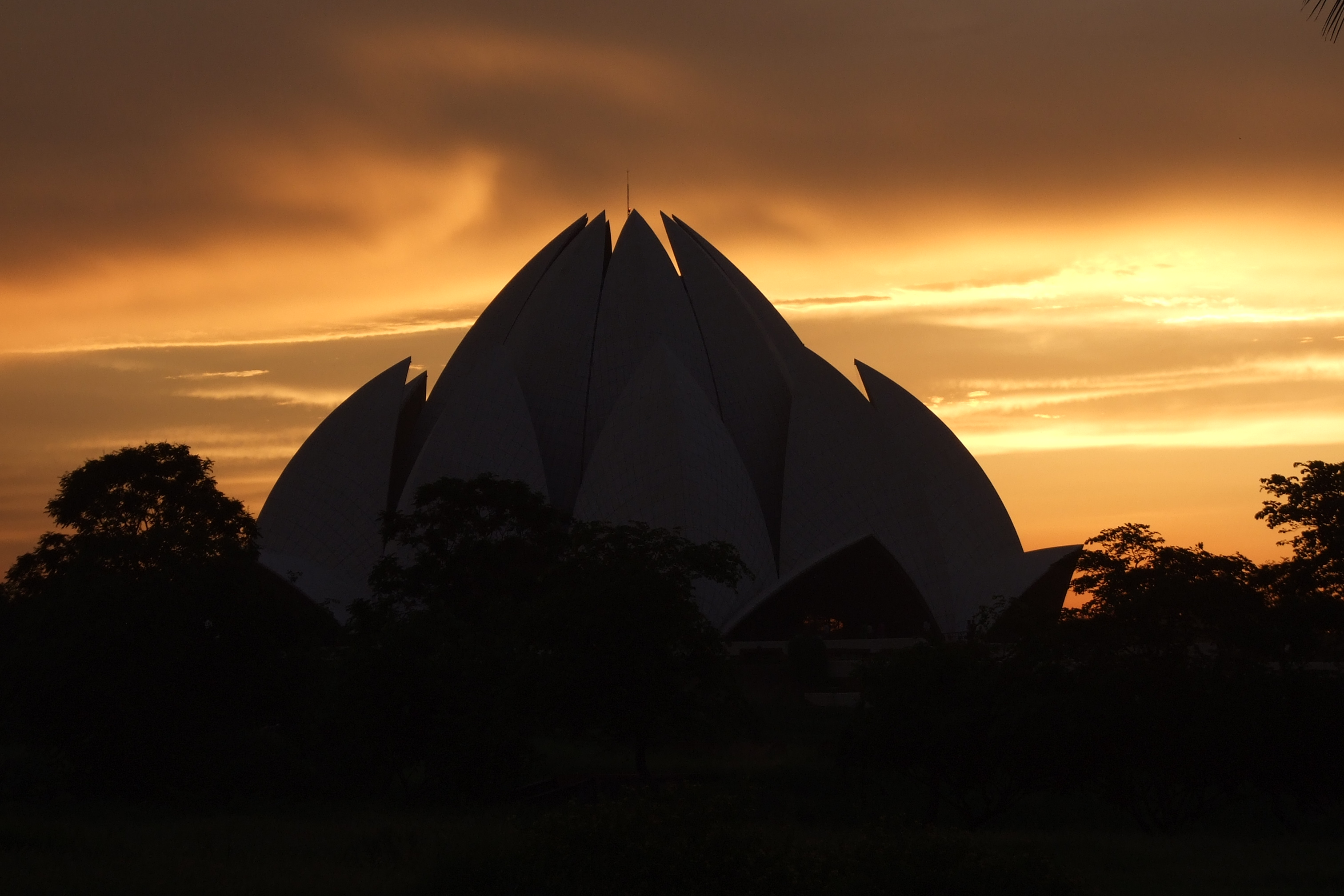 Sunset at the Bahá'í House of Worship, New Delhi, India